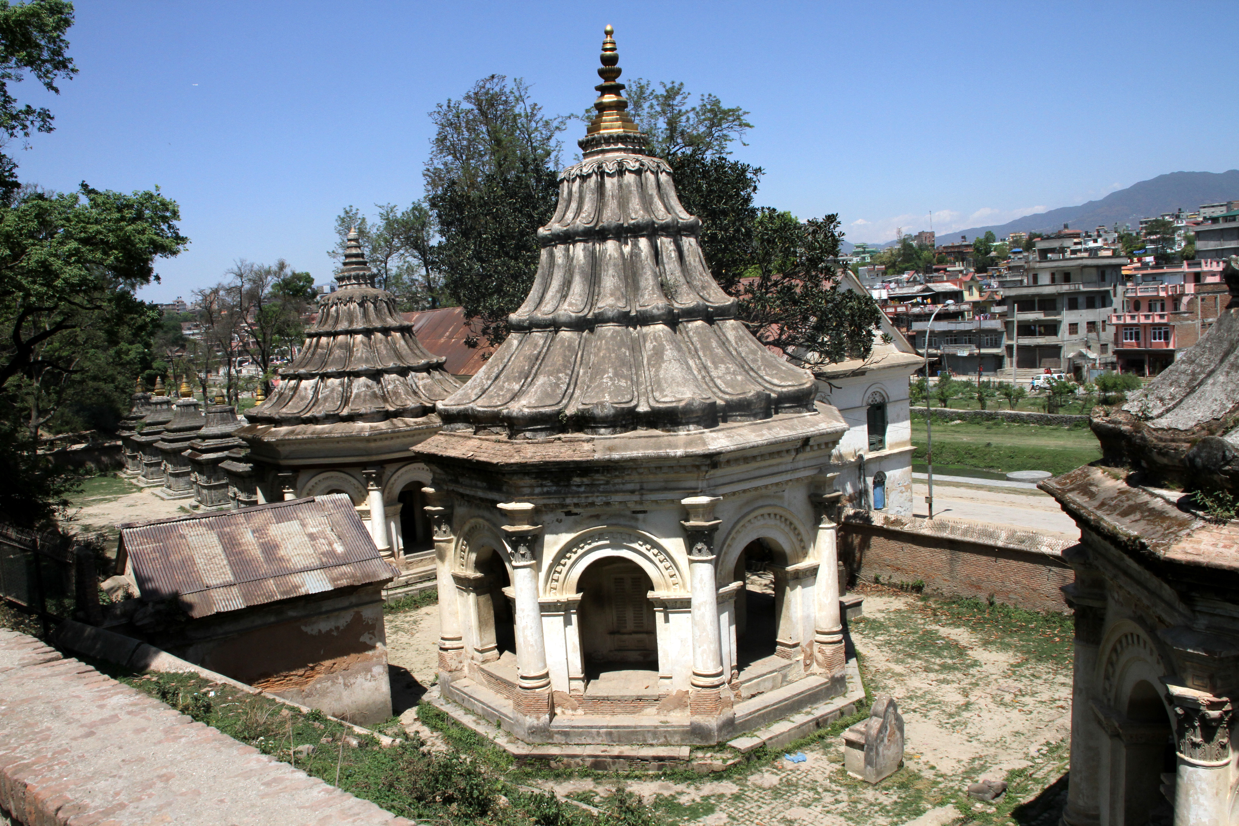 Pashupatinath, upper entrance